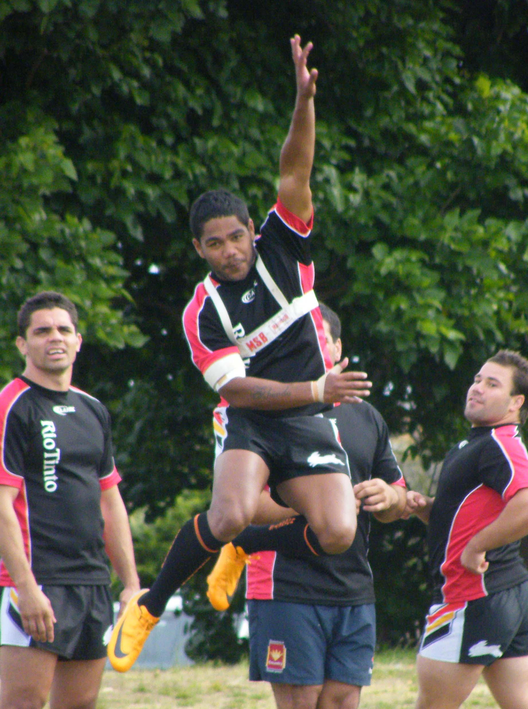 Training Session - Aboriginal Dreamtime Team - RLWC 2008